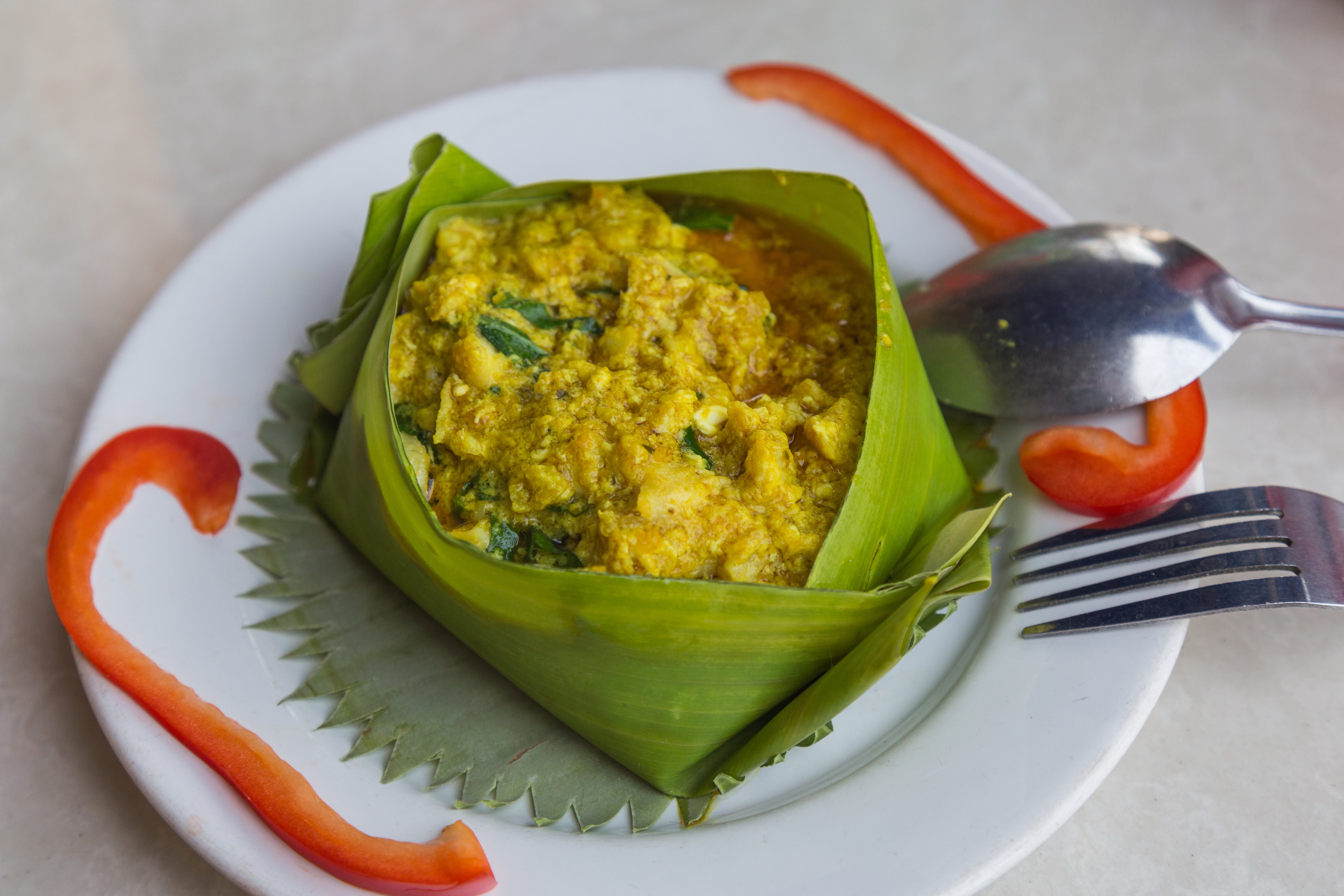 Amok trey - traditional dish of Cambodian cuisine. Phnom Penh, Cambodia.